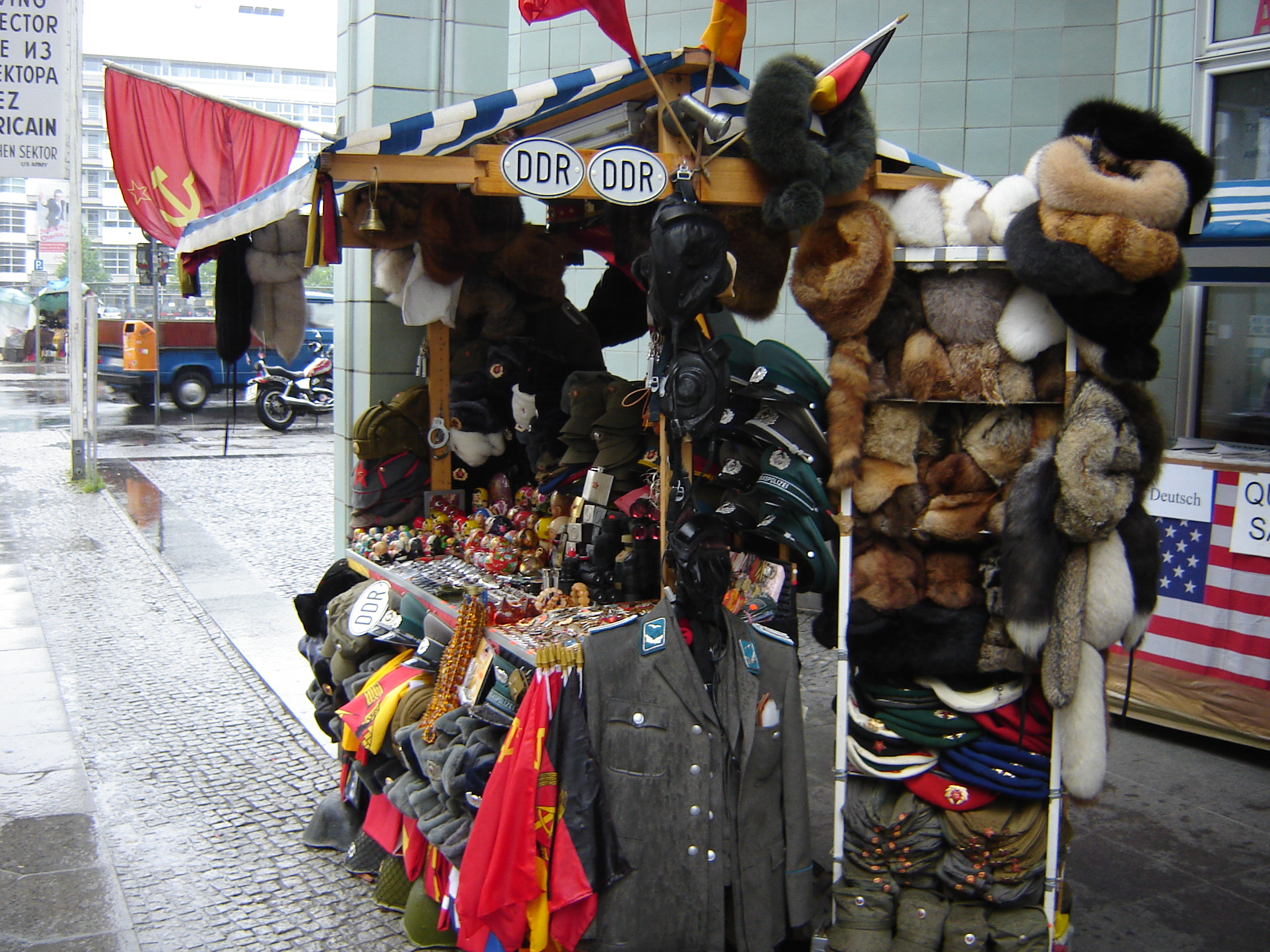 A booth selling East German memorabilia. This was taken with my camera by me, and, in keeping with my status as an information hippie, I release all rights to this photo.